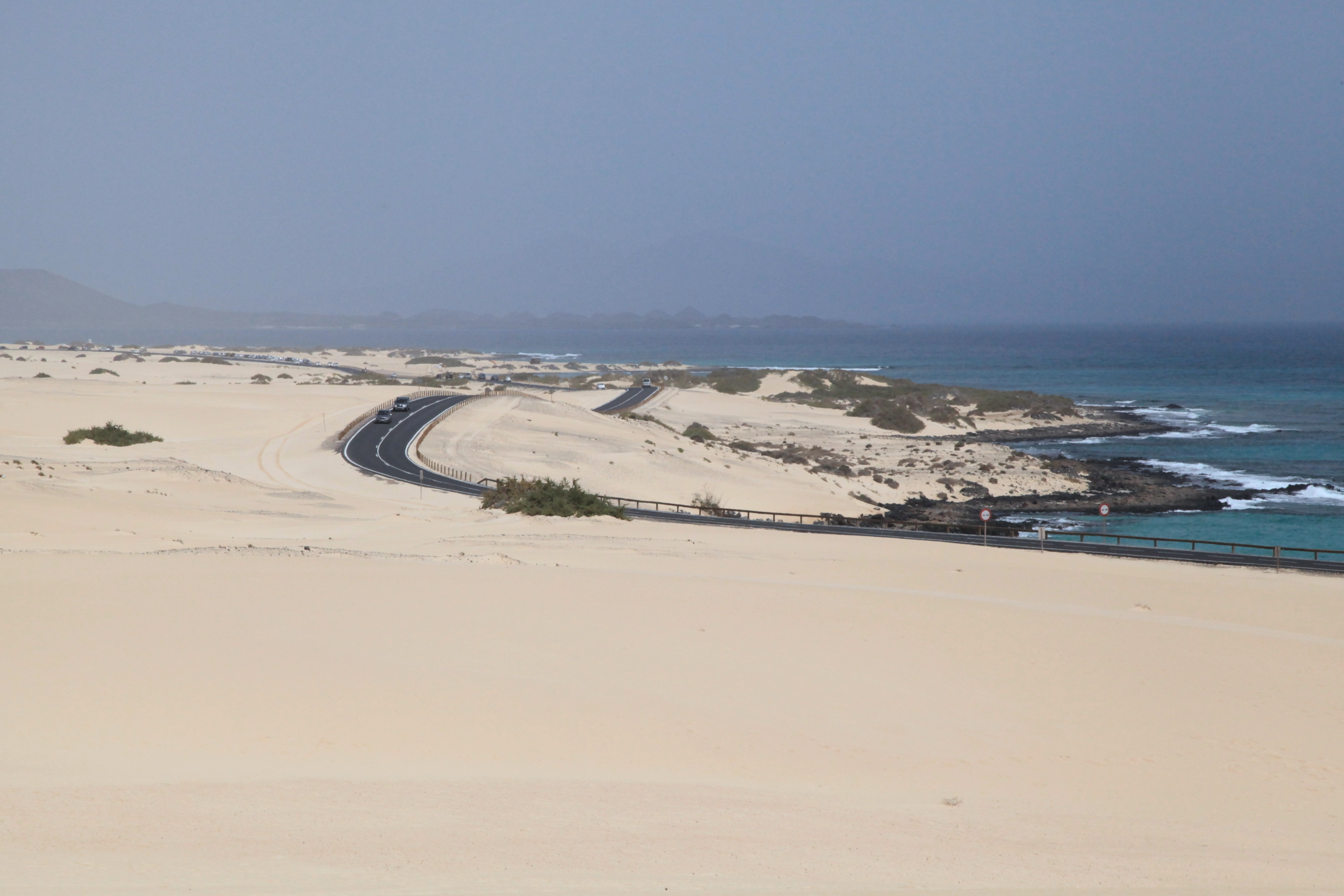 Dunas de Corralejo at the FV-1 in La Oliva, Fuerteventura, Canary Islands